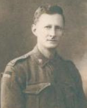 Detail of studio portrait, Lancelot Eldin De Mole (1880–1950)